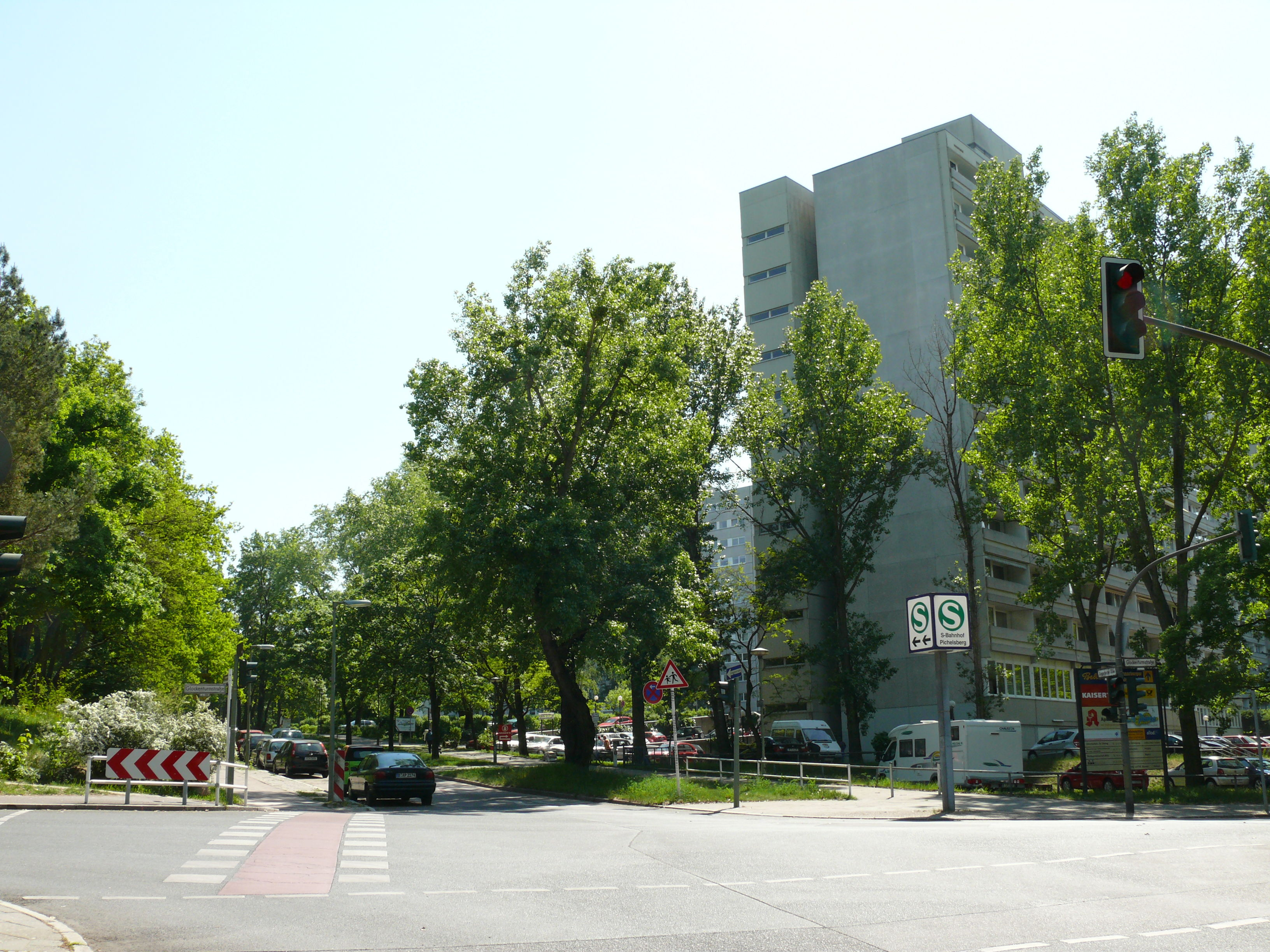 Berlin-Westend Angerburger Allee